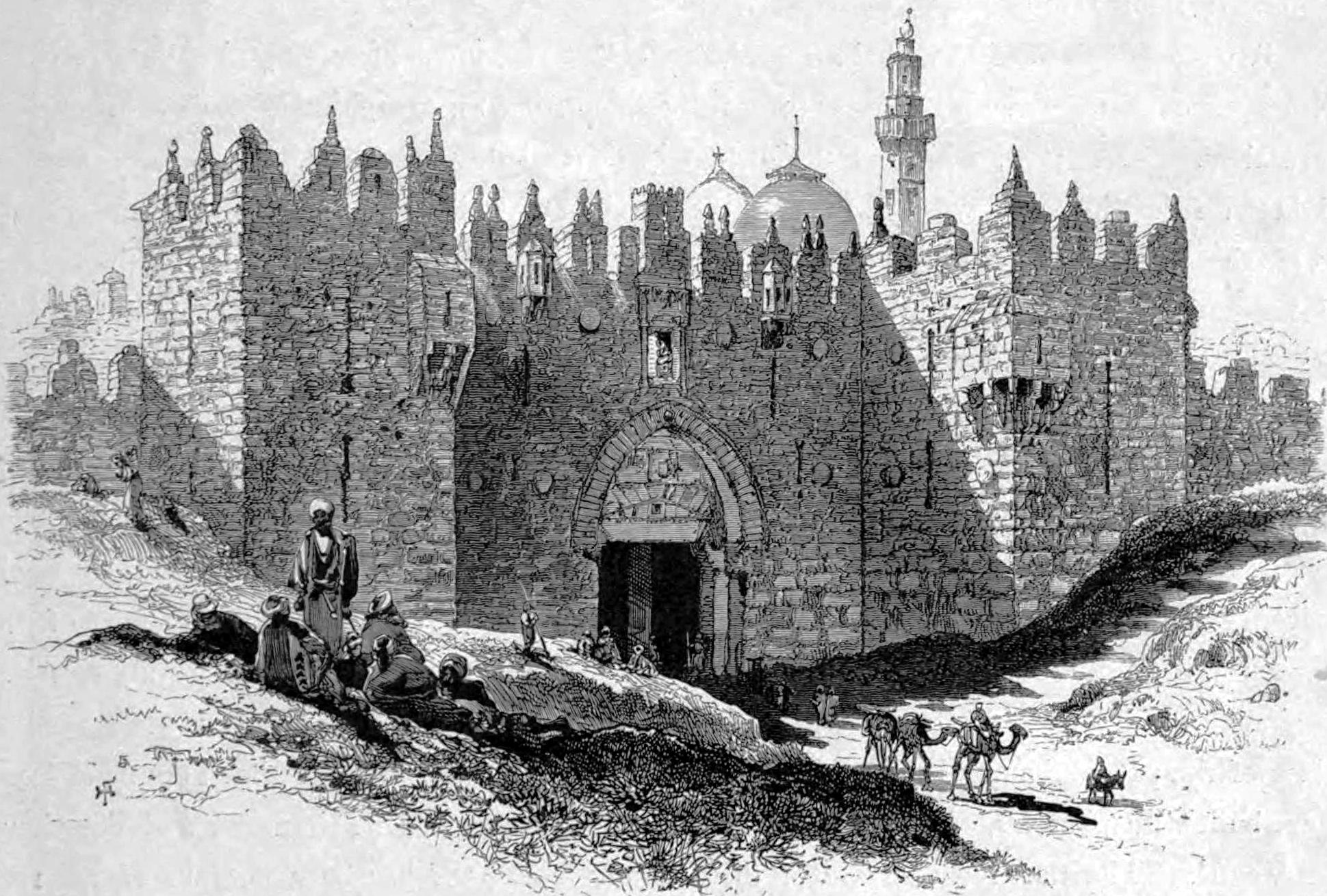 Damascus Gate-Bab el Amud (Gate of the Column). The northern entrance to Jerusalem